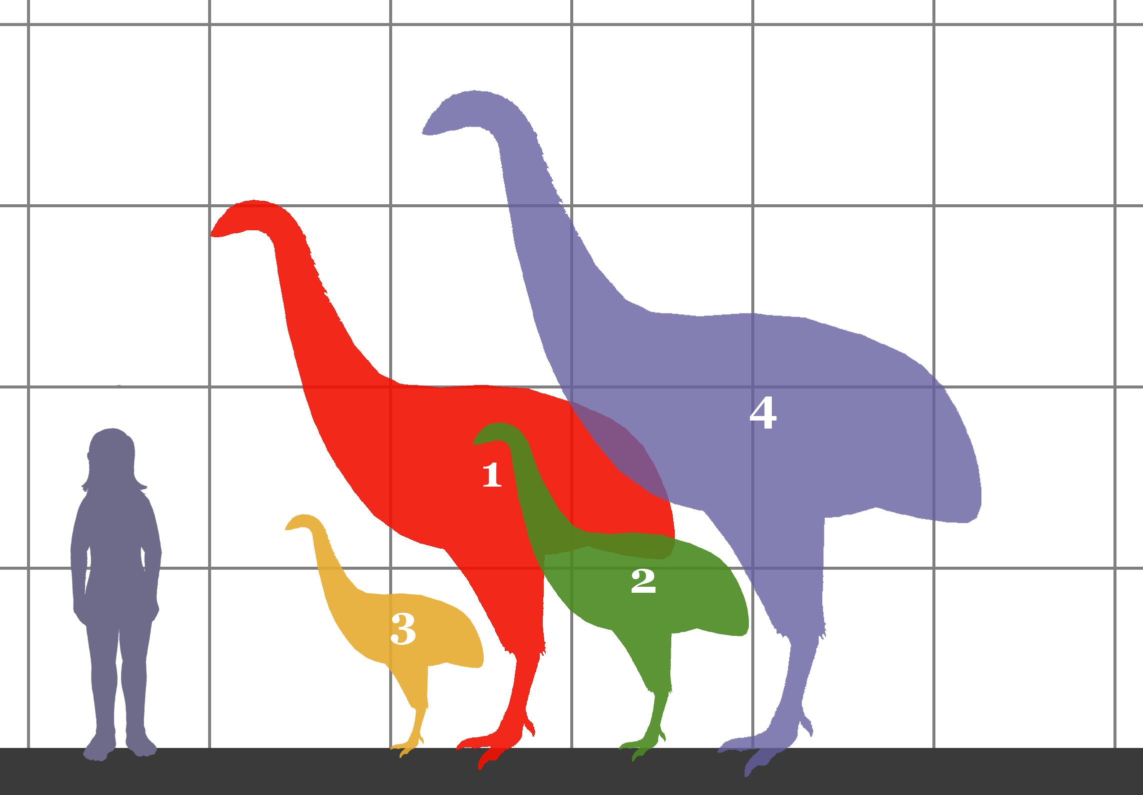 Size comparison between 4 species of moa bird and a human. 1. Dinornis novaezelandiae (3 meters tall). 2. Emeus crassus (1.8 meters tall). 3. Anomalopteryx didiformis (1.3 meters tall). 4. Dinornis robustus (3.6 meters tall).